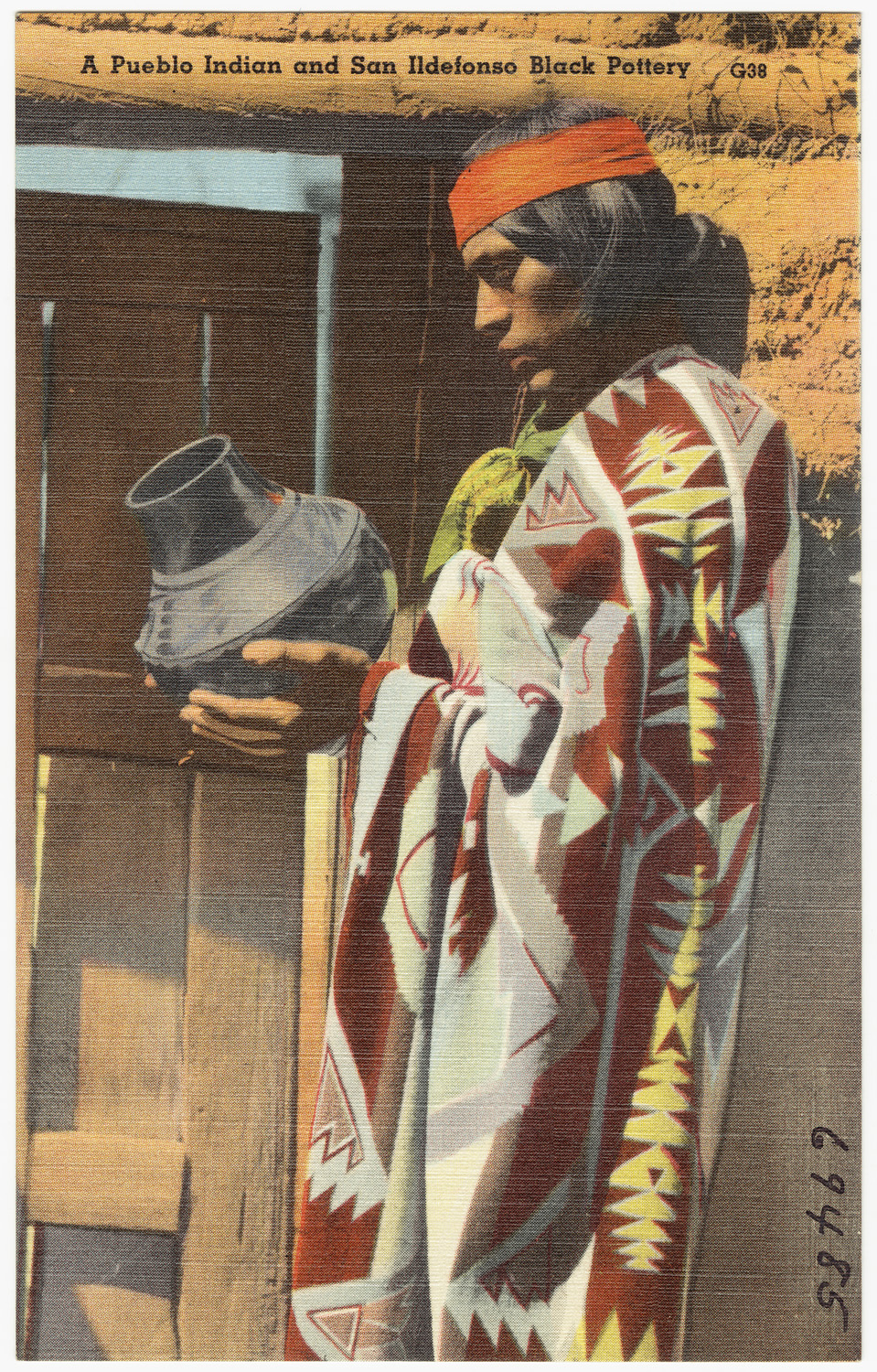 File name: 06_10_015682 Title: A Pueblo Indian and San Ildefonso Black Pottery Created/Published: Pub. by Southwest Arts & Crafts, Santa Fe, New Mexico; Tichnor Bros. Inc., Boston, Mass. Date issued: 1930 - 1945 (approximate) Physical description: 1 print (postcard) : linen texture, color ; 5 1/2 x 3 1/2 in. Genre: Postcards Notes: Collection: The Tichnor Brothers Collection Location: Boston Public Library, Print Department Rights: No known restrictions Flickr data on 2011-08-17: Camera: Epson Exp10000XL10000 Tags: postcard, tichnor brothers, New Mexico License: CC BY 2.0 User: Boston Public Library